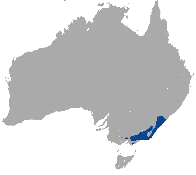 Mountain Brushtail Possum (Trichosurus cunninghami) range